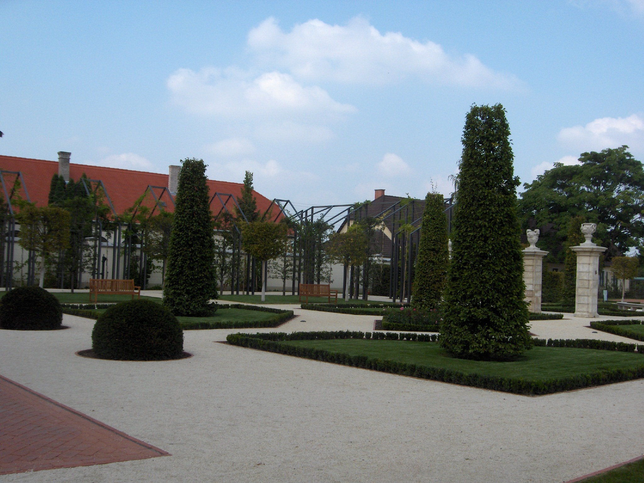 The garden of the former Archbishop's Palace in the city of Hajós